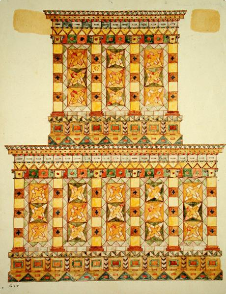 Building